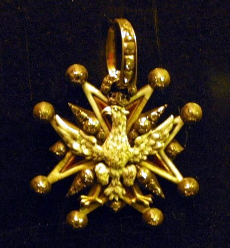 Order Orła Białego (Order of the White Eagle). XVIII wiek (18th century).